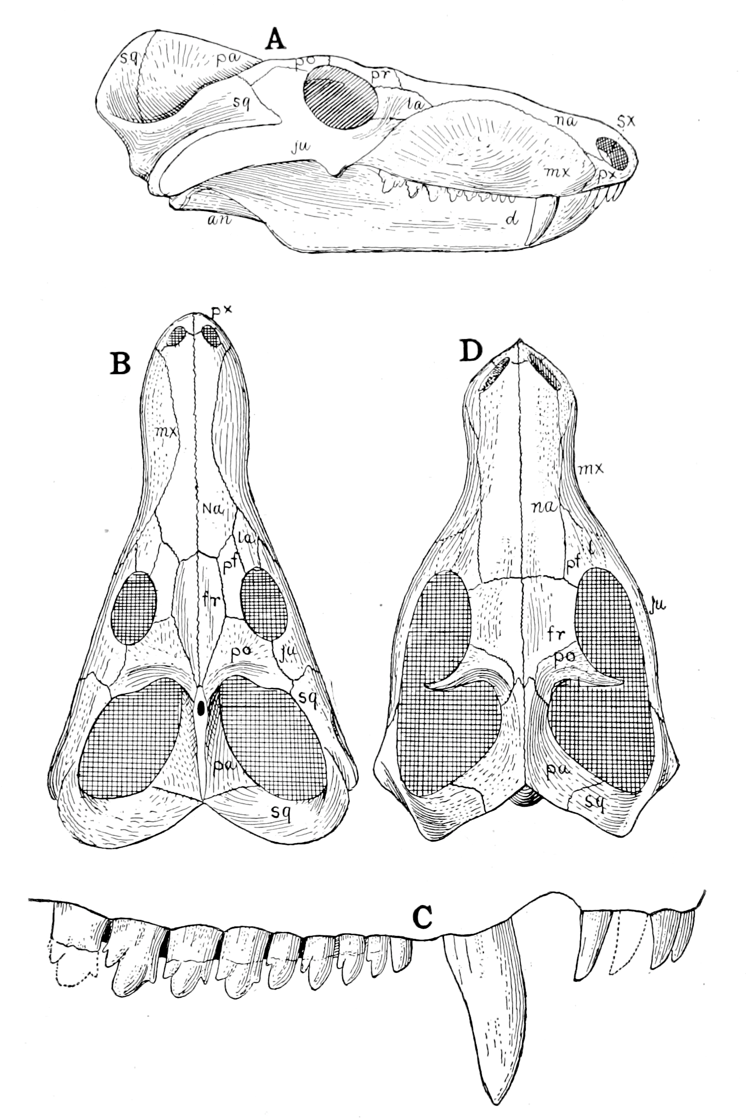 Illustration of Cynognathus and Bauria skulls from The Osteology of the Reptiles (1925)